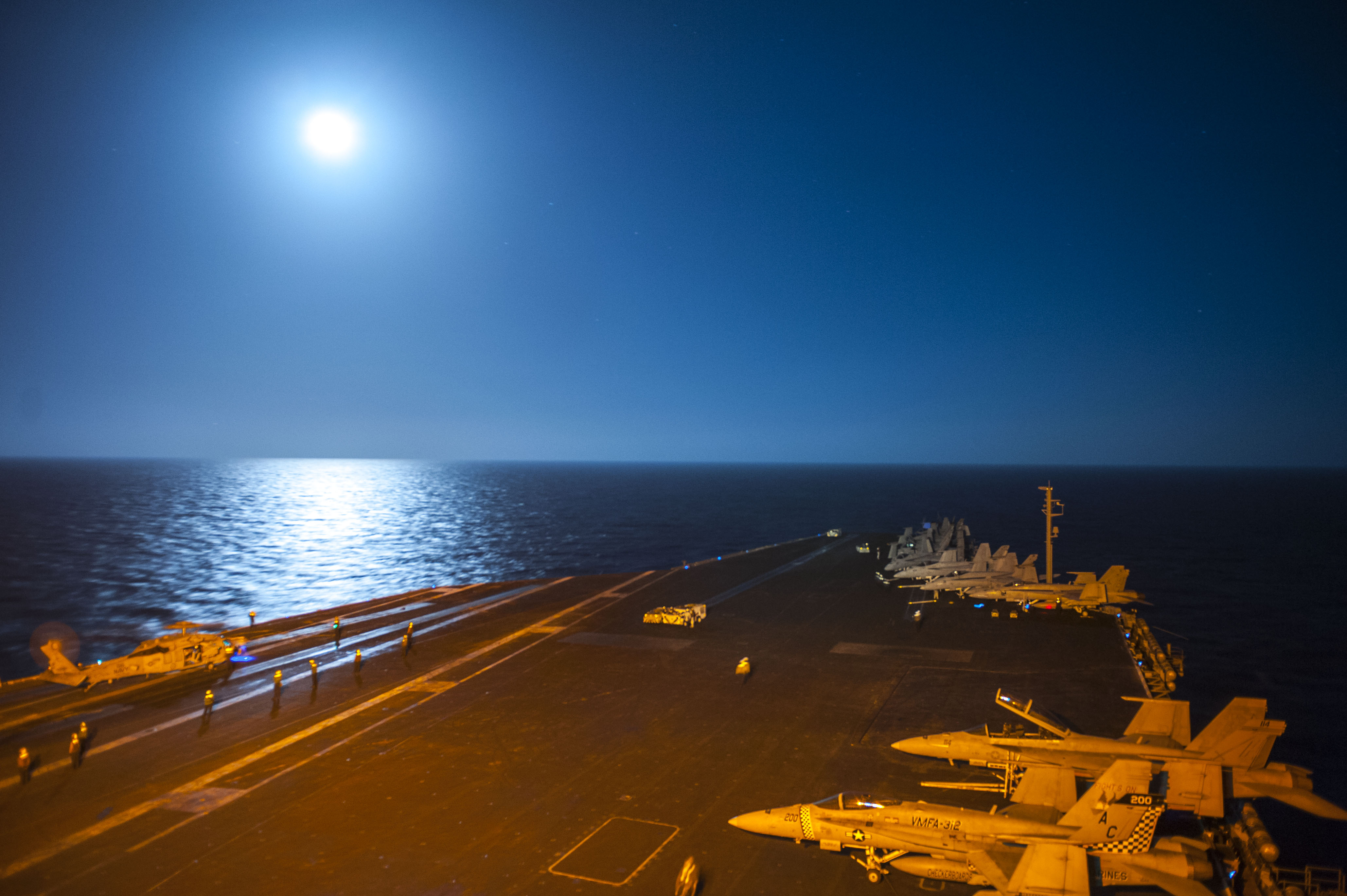 A U.S. Navy MH-60S Seahawk helicopter, left, assigned to Helicopter Sea Combat Squadron (HSC) 7, prepares to take off from the flight deck of the aircraft carrier USS Harry S. Truman (CVN 75) March 17, 2014, in the Gulf of Oman. The Harry S. Truman Carrier Strike Group was deployed to the U.S. 5th Fleet area of responsibility supporting security efforts in the region and Operation Enduring Freedom.